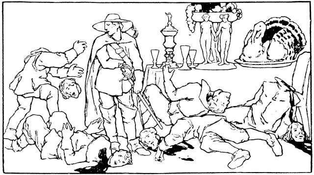 Illustration by Otto Ubbelohde to the fairy tale The King of the Golden Mountain